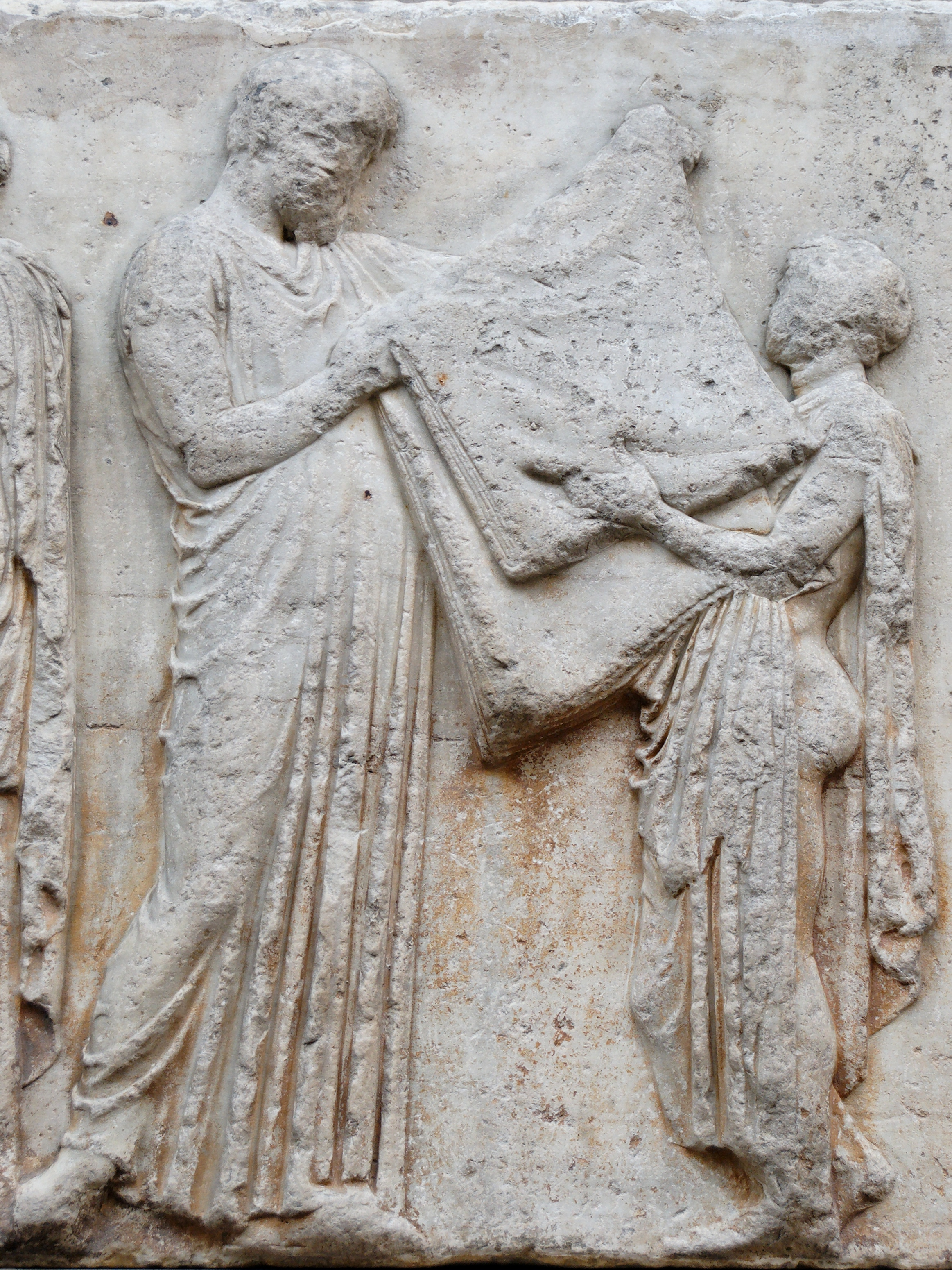 A bearded man (probably the archon basileus) receives a folded cloth (probably the sacred peplos of Athena) from a child (probably a boy). Block V (fig. 34-35) from the East frieze of the Parthenon, ca. 447–433 BC.